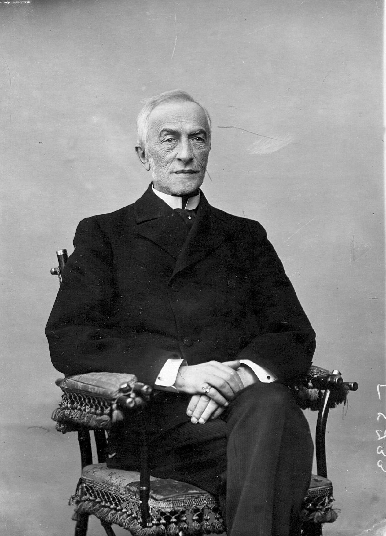 Privy councilor of the Russian Empire, Andrei Markovich.